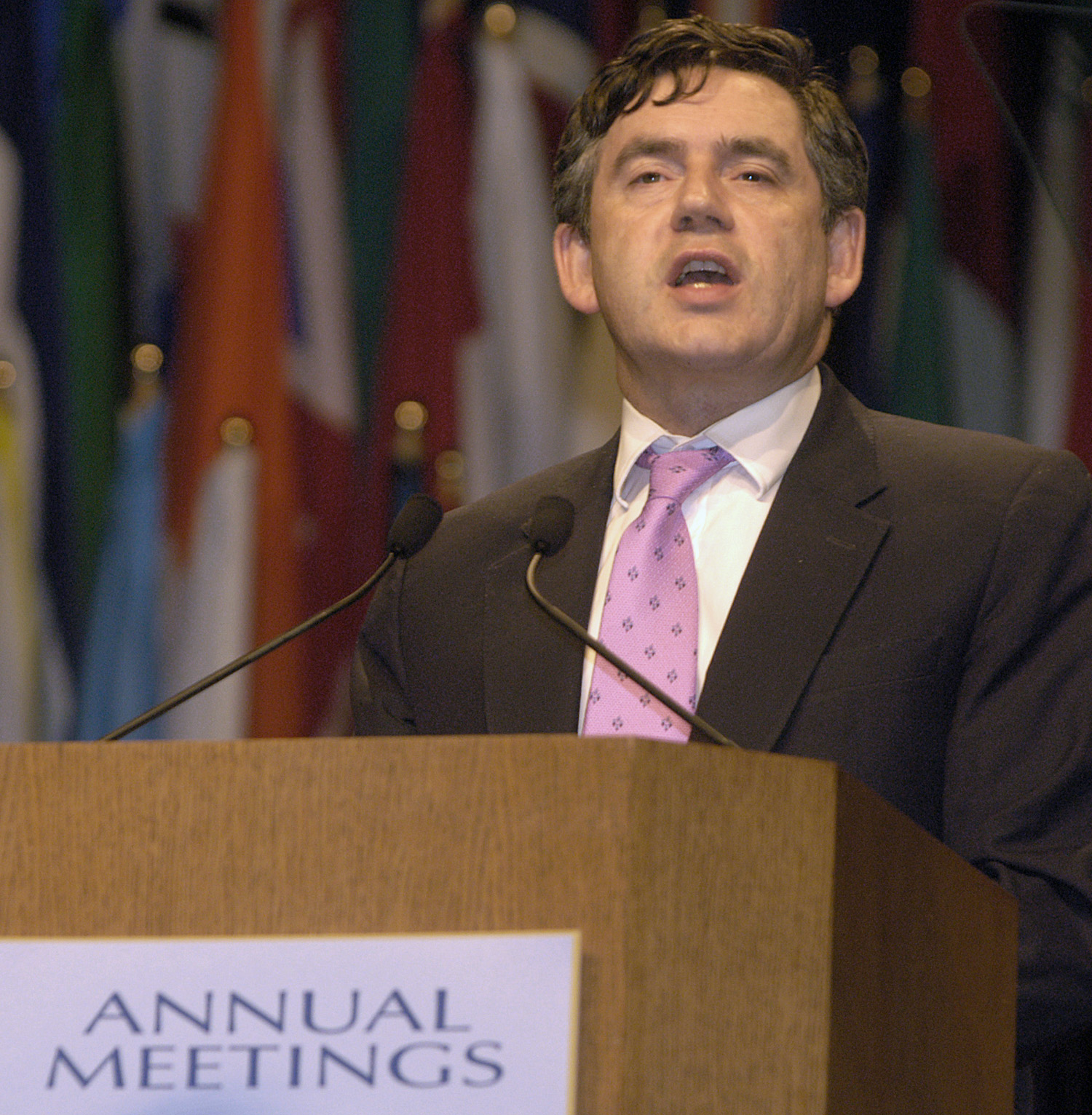 United Kingdom Chancellor of the Exchequer Gordon Brown at IMF Headquarters, Washington, DC.